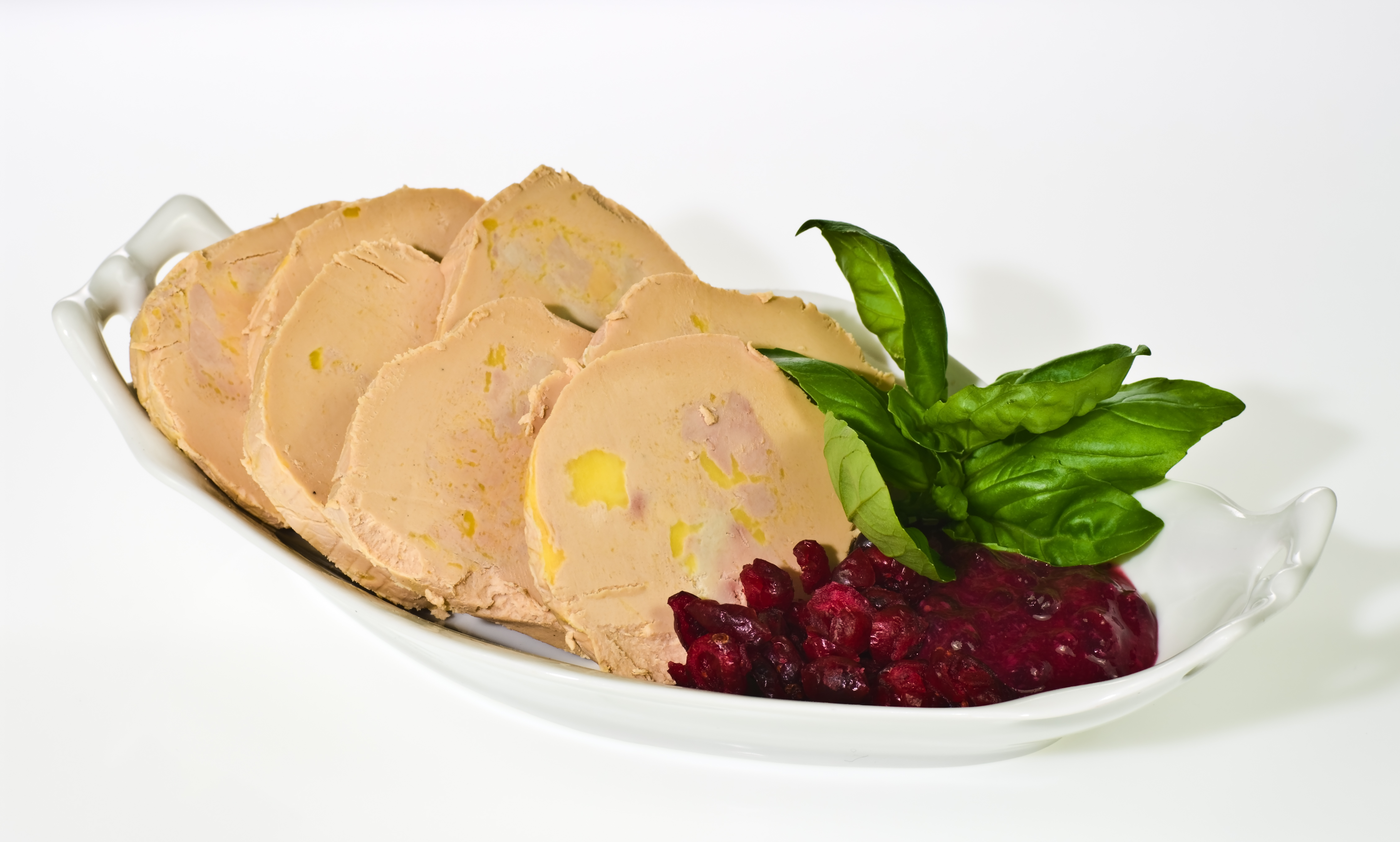 Foie gras - food product made of the liver of a duck or goose that has been specially fattened.